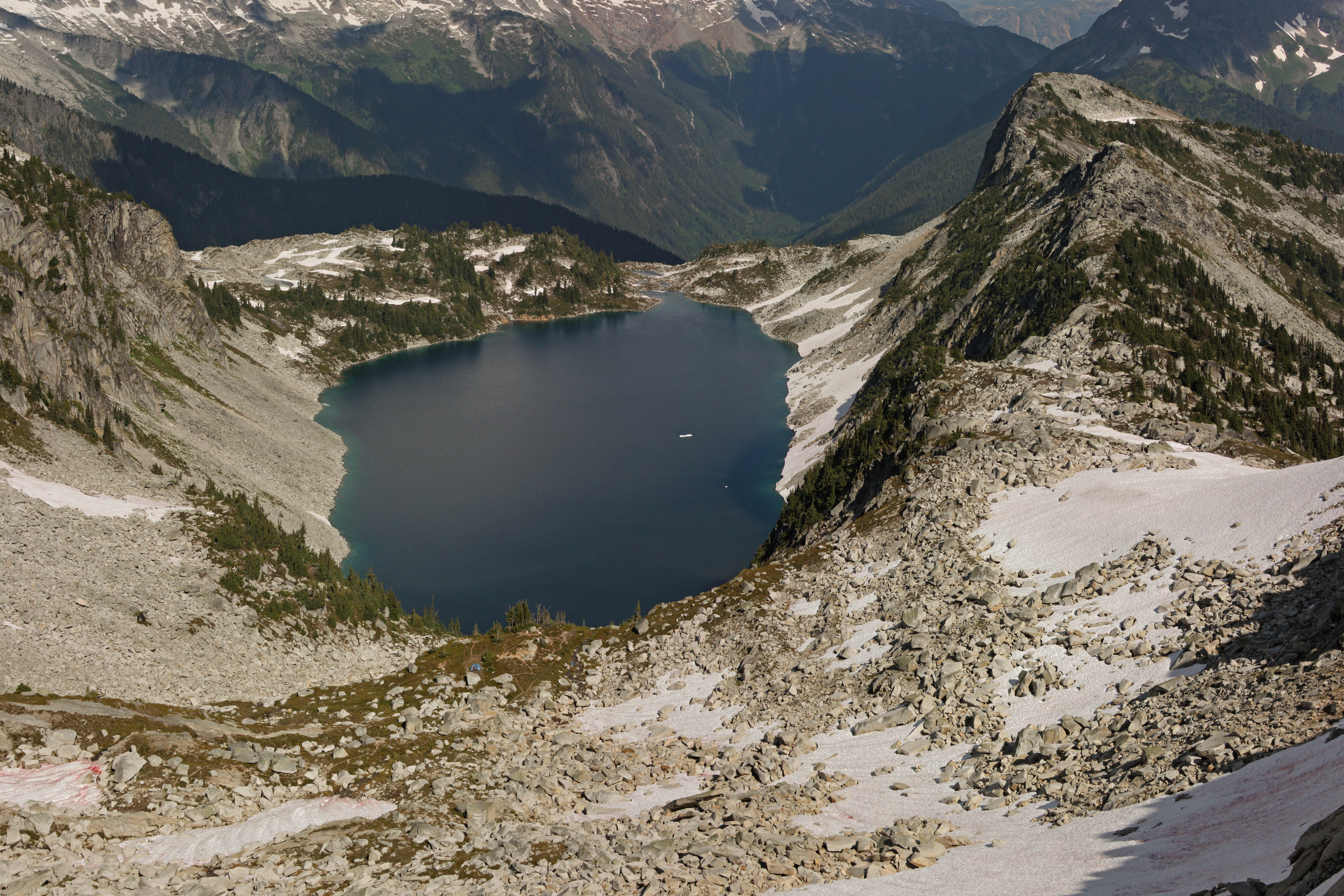 Hidden Lake (Skagit County, Washington) (5733 ft, 1747 m); stitched panorama; please see "Other versions" for source images. This image was created with Hugin Viewpoint location: Hidden Lake Trail, North Cascades National Park Viewpoint elevation: 1758 meter (5769 ft) View direction: 93° Location source: Garmin GPSmap 60CSx Location Datum: WGS84